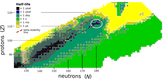 This diagram shows the theoretical island of stability in nuclear physics. It plots the measured (boxed) and predicted (shaded) half-lives of isotopes, sorted by number of protons (vertically) and neutrons (horizontally) with the expected location of the island of stability circled. This diagram is a simplified version of the original File:Island of stability (Zagrebaev).png.